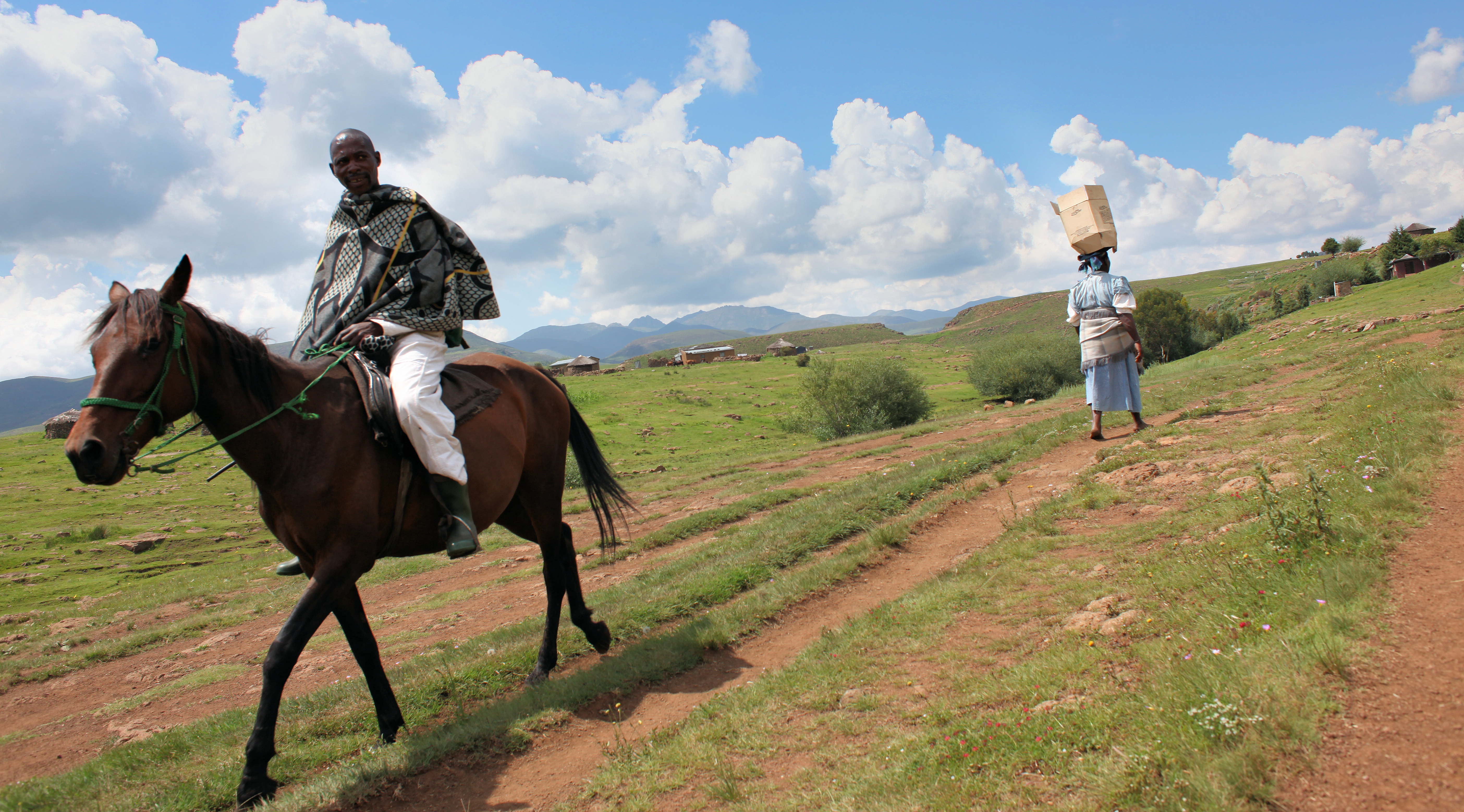 My kindom for a horse